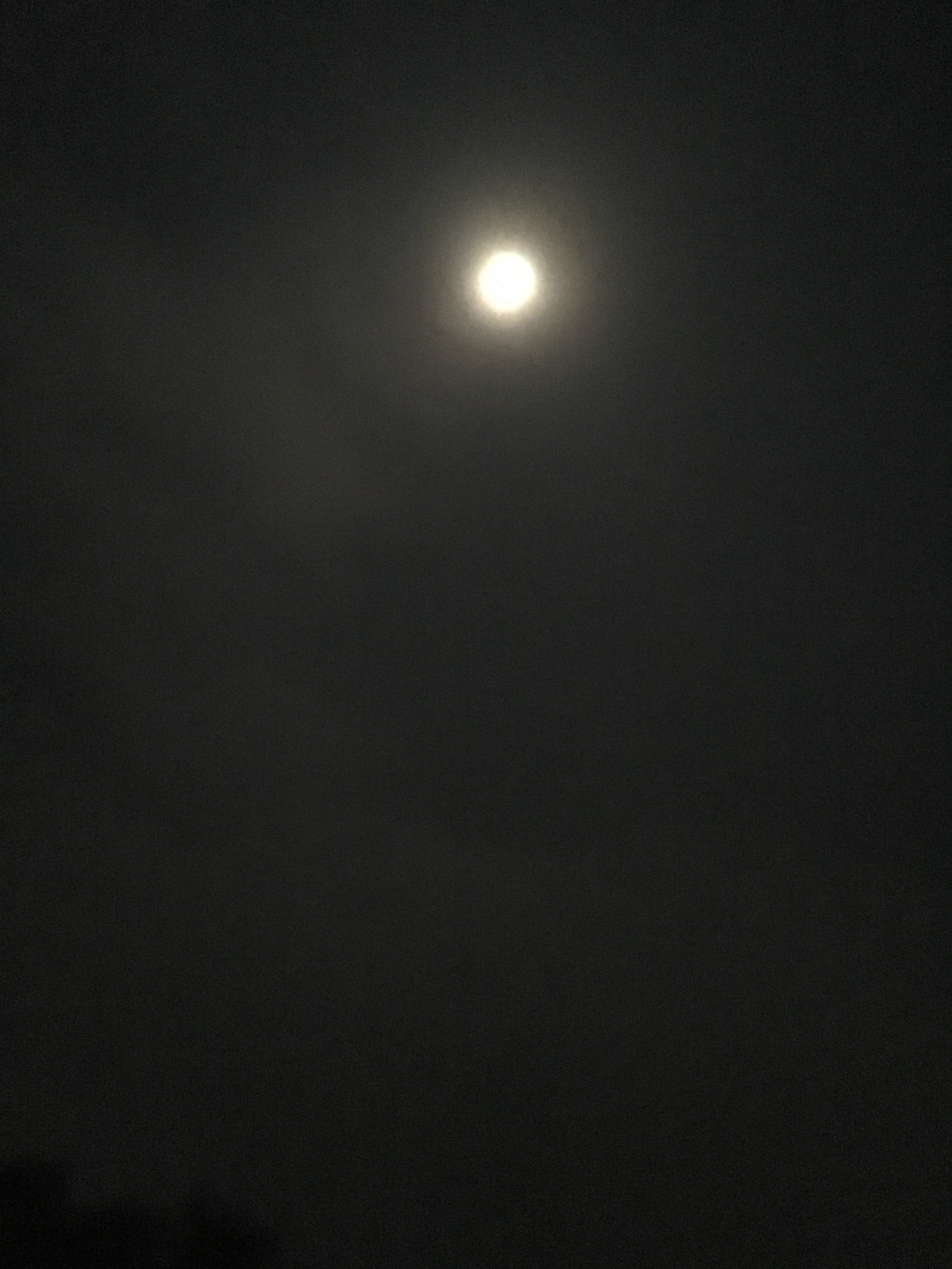 A picture of the Moon as seen on night of the Hindu Festival of Kojagiri (Sharad Purnima) in 2017.